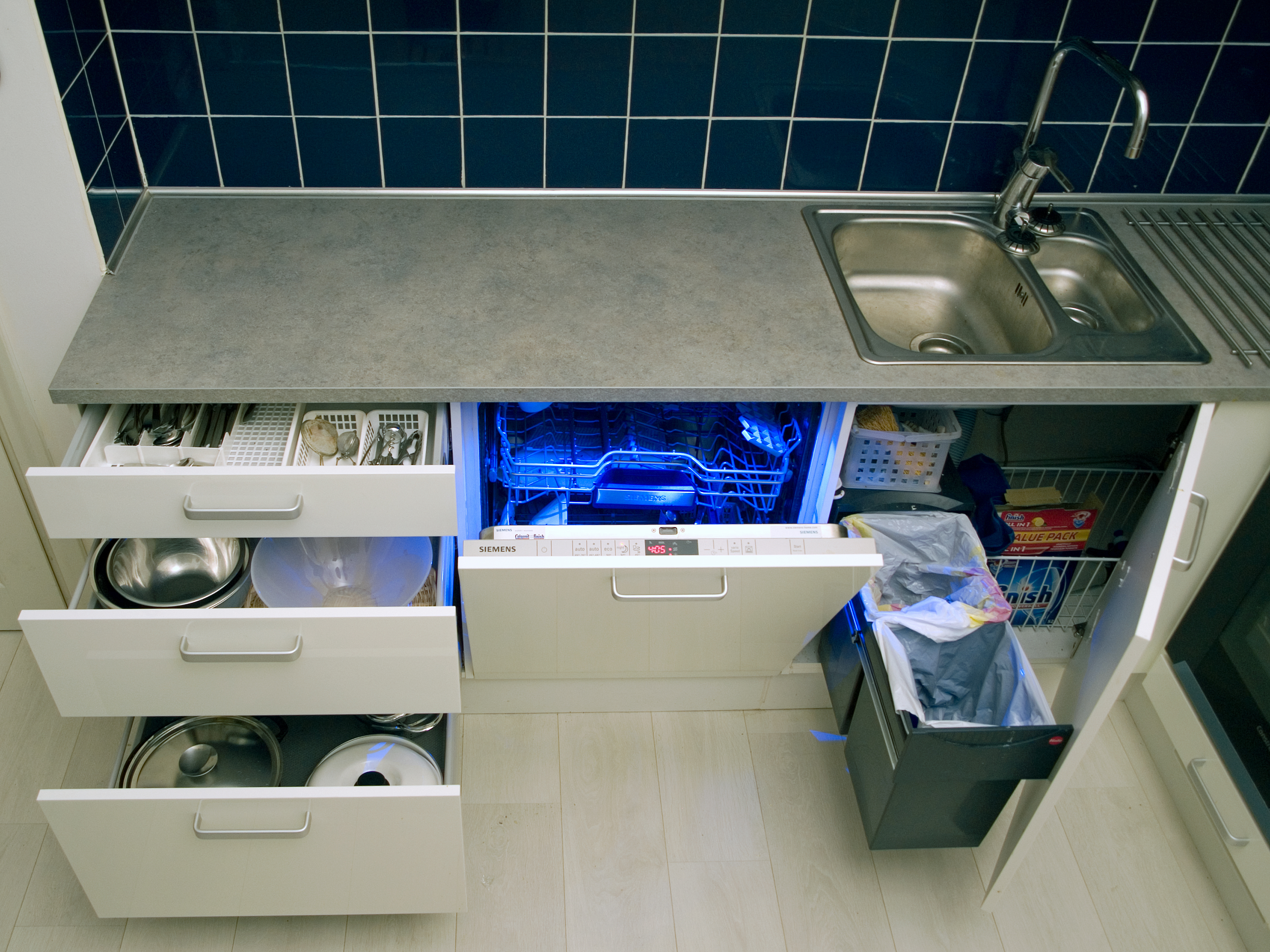 Lower cabinets and sink of a Scandinavian glossy white kitchen: set of drawers for pots & pans, integrated dishwasher, and under-the-sink cabinet with a pull-out set of trash bins.